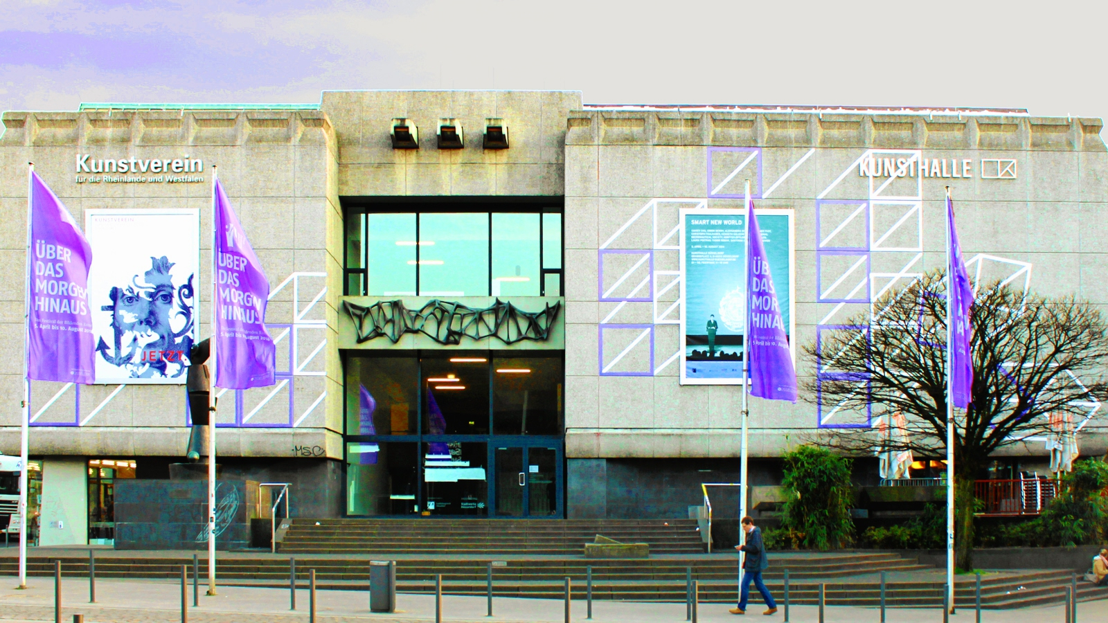 "Kunsthalle", exhibition hall for contemporary art by the city of Düsseldorf, Germany, and the "Kunstverein für die Rheinlande und Westfalen", society of art in rhineland and westphalia. Banner for the Quadriennale festival of arts 2014.